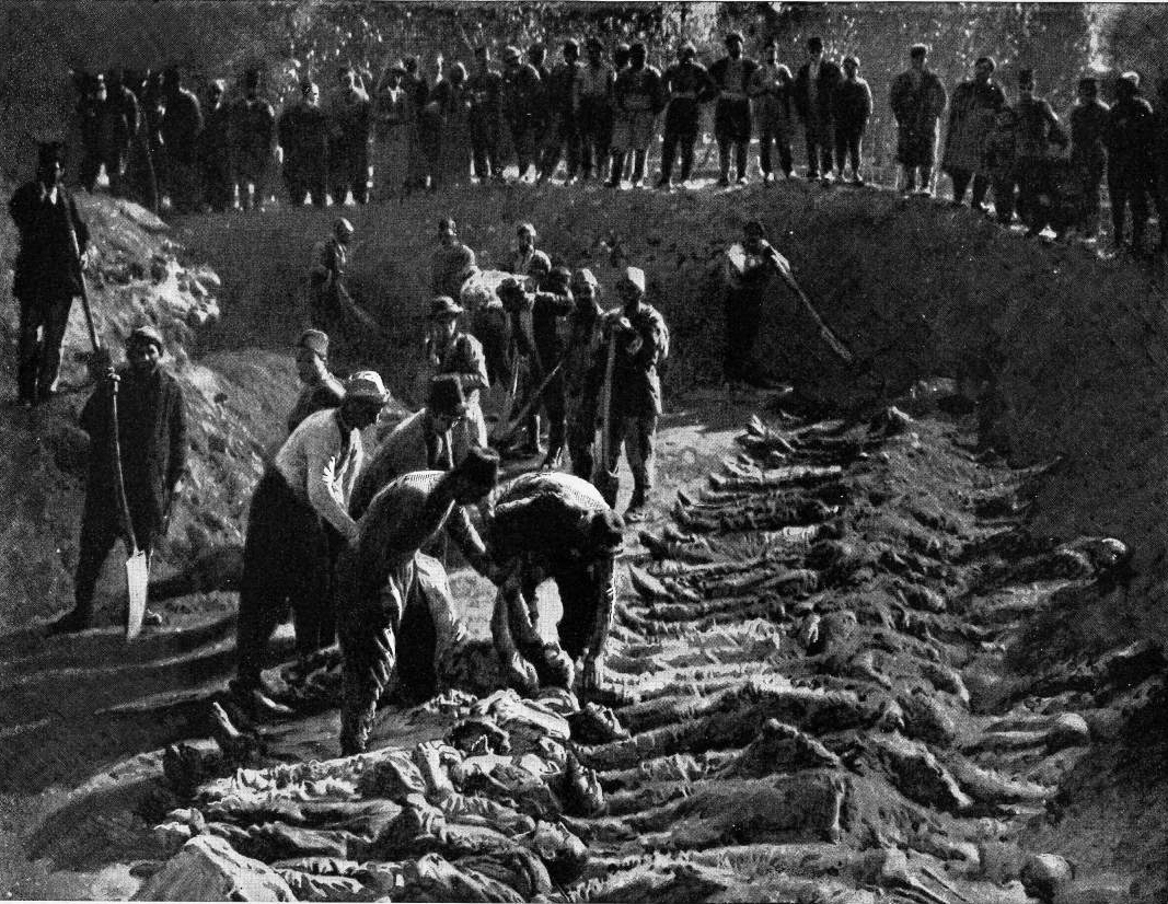 The Erzeroum Armenian victims of the massacres are buried in a mass grave in Erzeroum cemetery.